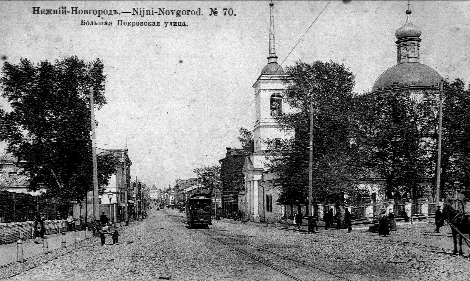 Bolshaya Pokrovskaya Street in Nyzhny Novgorod